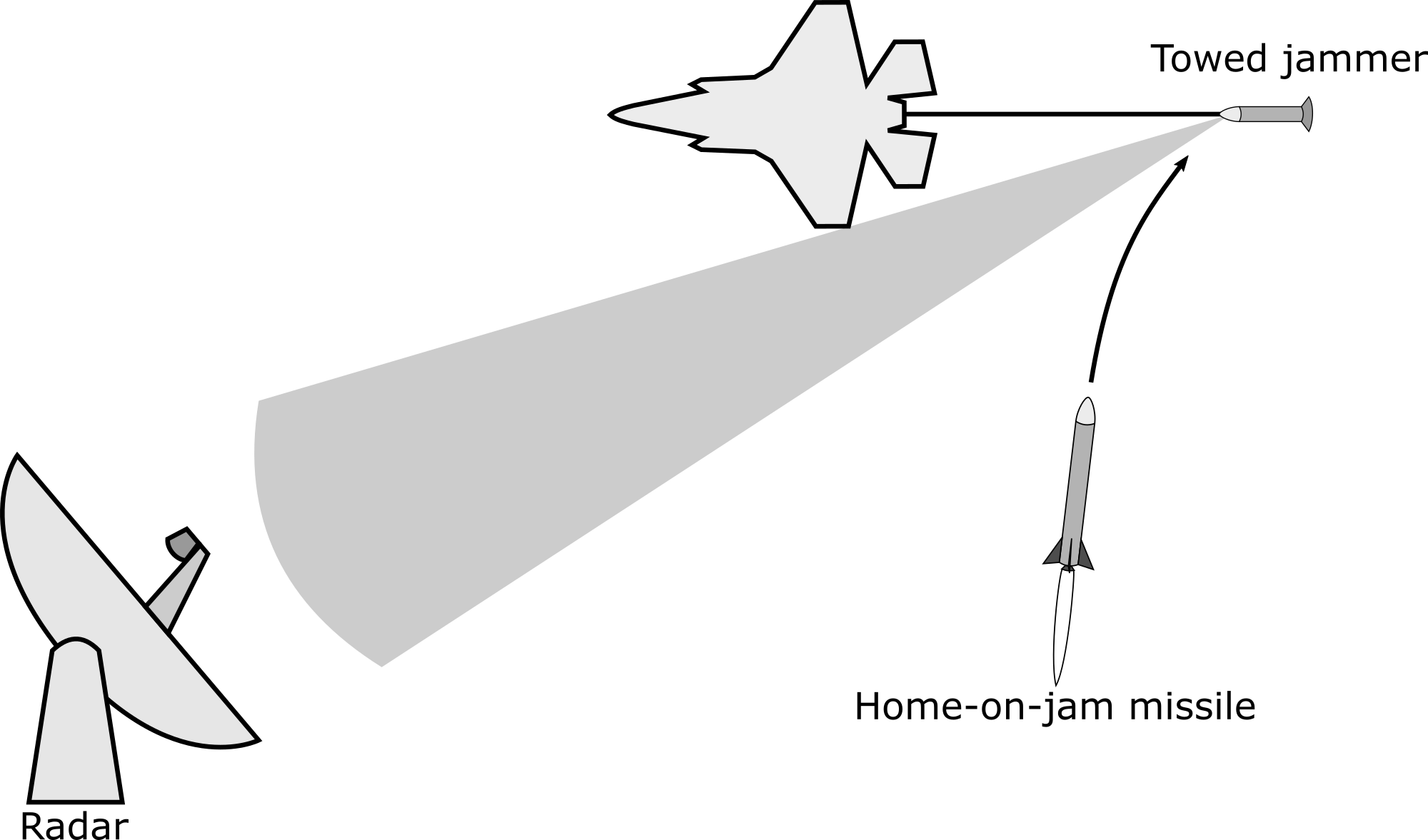 HOJ on a towed jammer